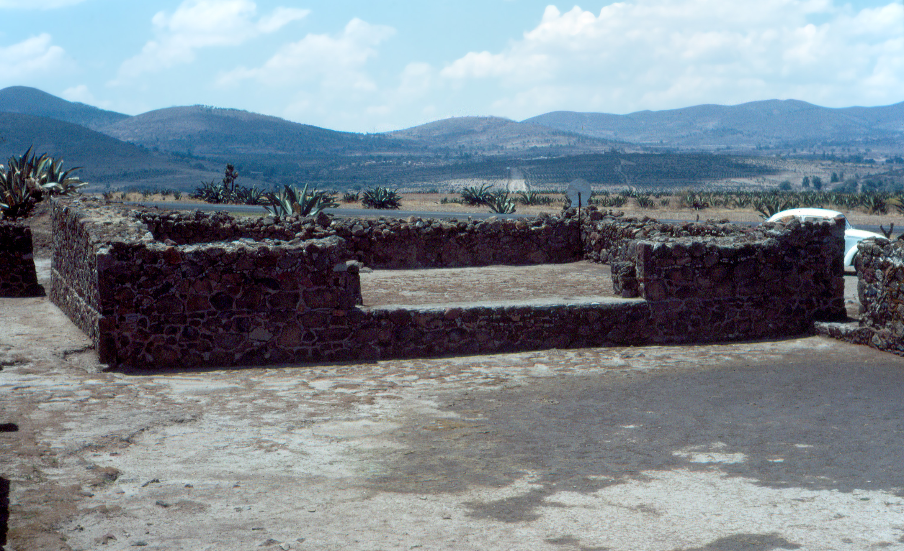 Tecoaque near TCalpulalpan, Tlaxcala, Mexico: residential building